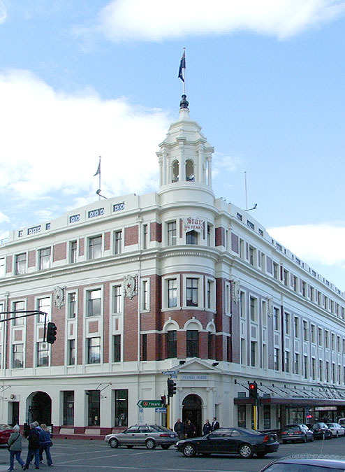 Allied Press Building, Lower Stuart Street, Dunedin, New Zealand. New Zealand Historic Places Trust Register number: 2135